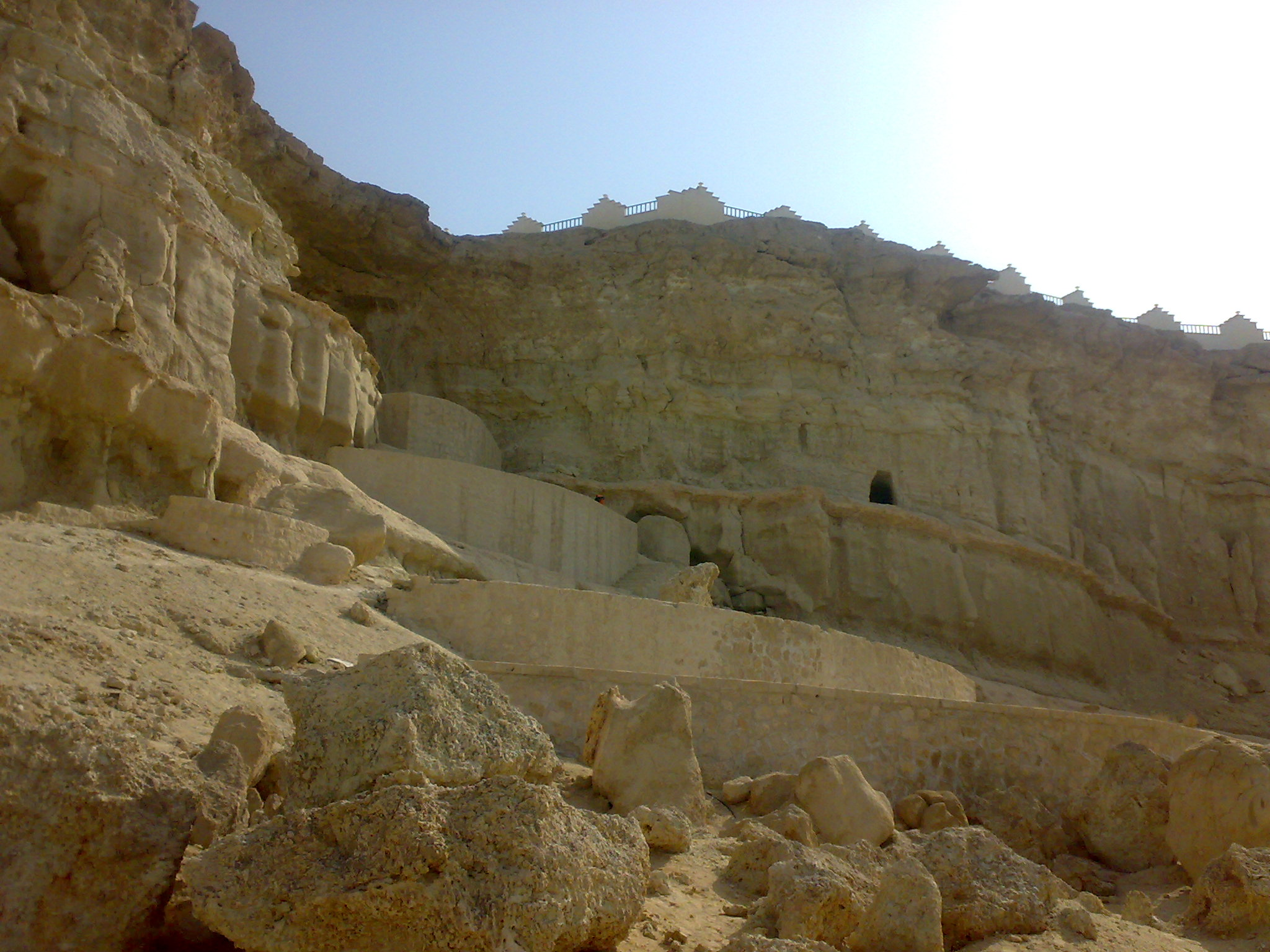 this cave that its name is kharbas is in Iran,Qeshm